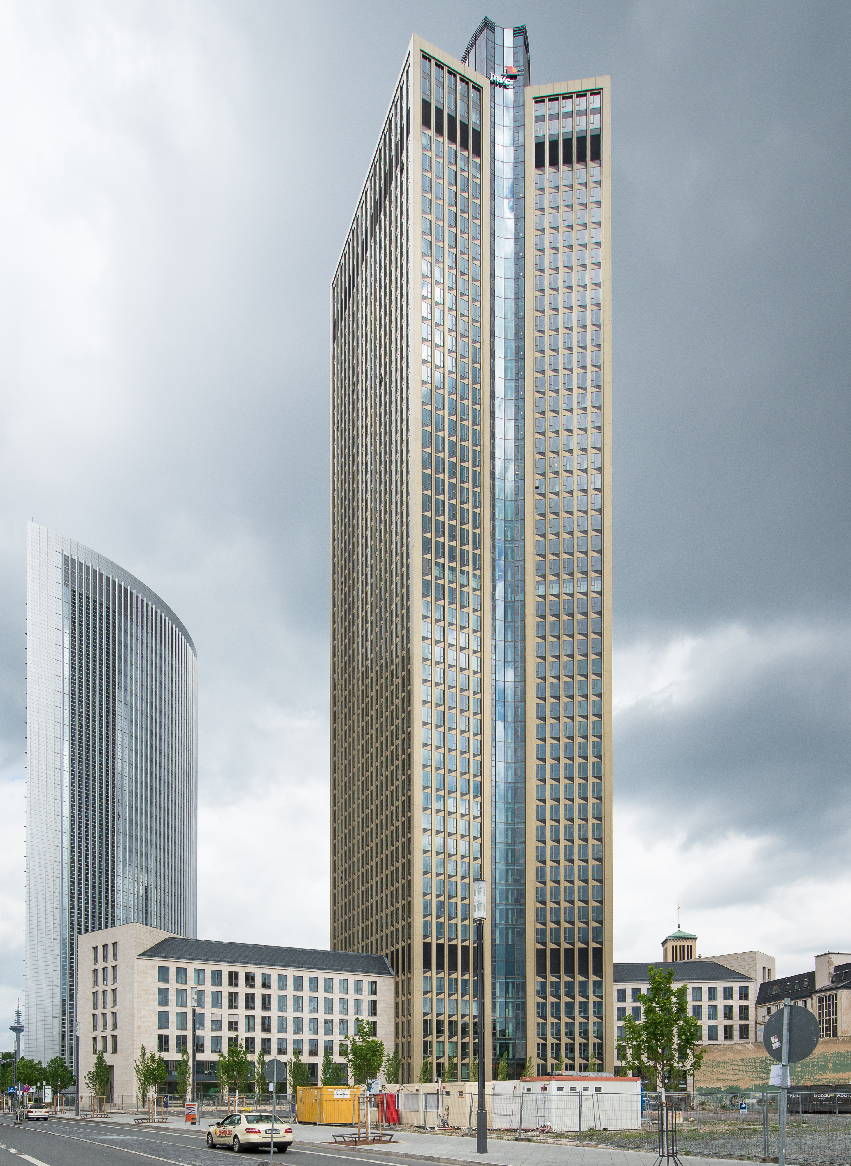 Frankfurt am Main, South side of the Tower 185 building complex)